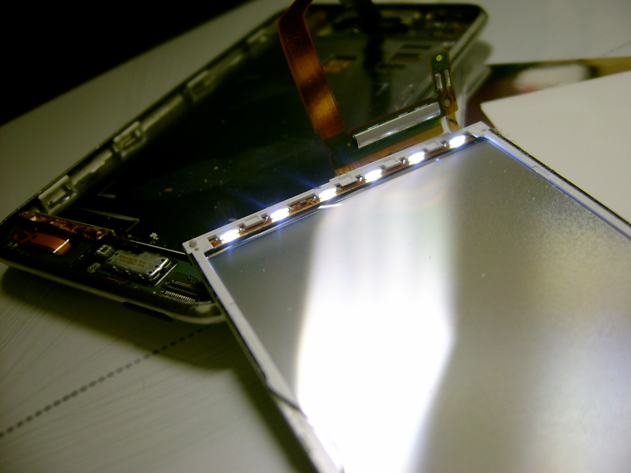 The array of LED's that function as the backlight of an Apple iPod Touch 2G